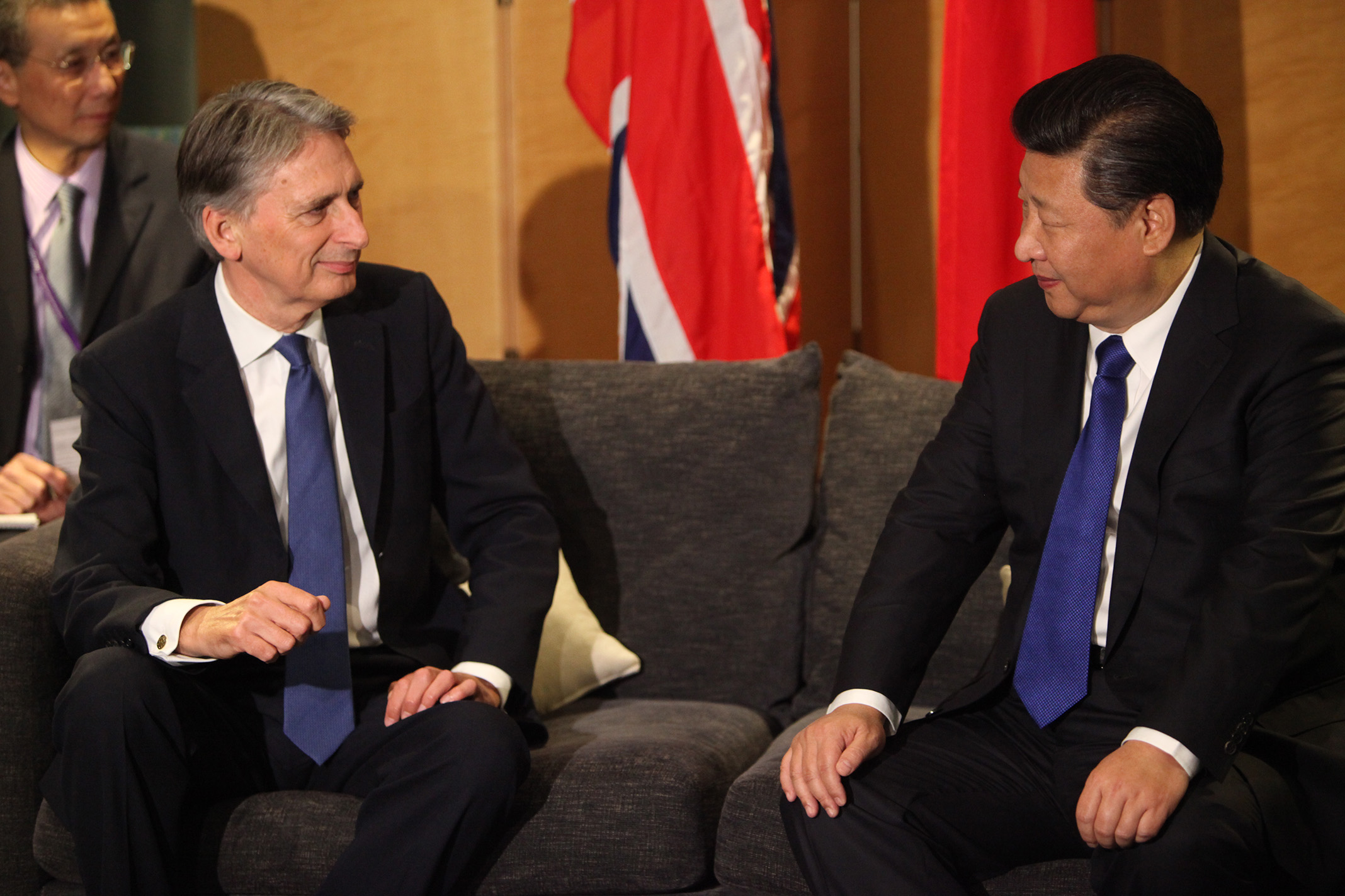 Foreign Secretary Philip Hammond welcomes President of China, Xi Jinping to London, 19 October 2015.